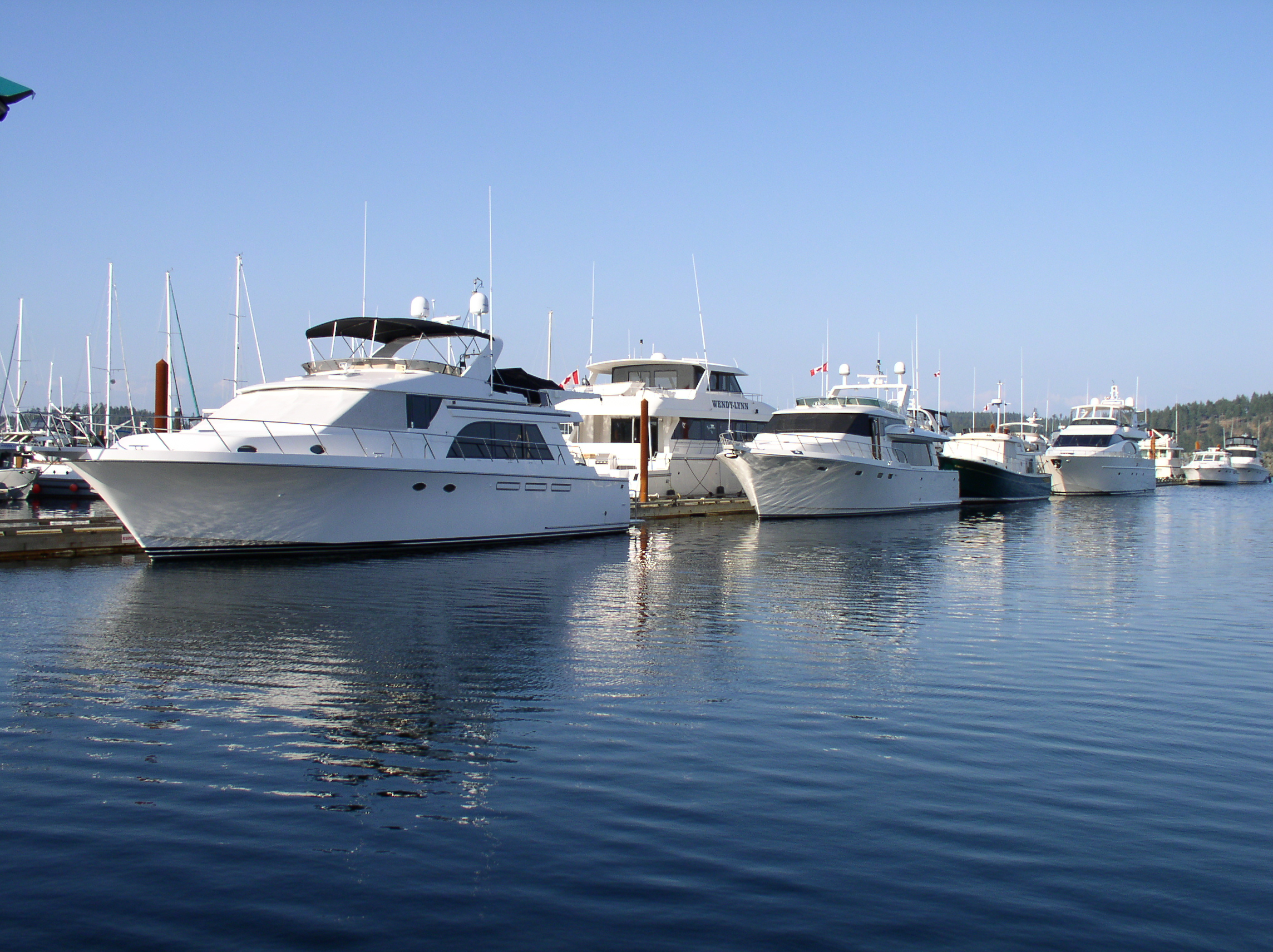 Multiple Motor Yachts